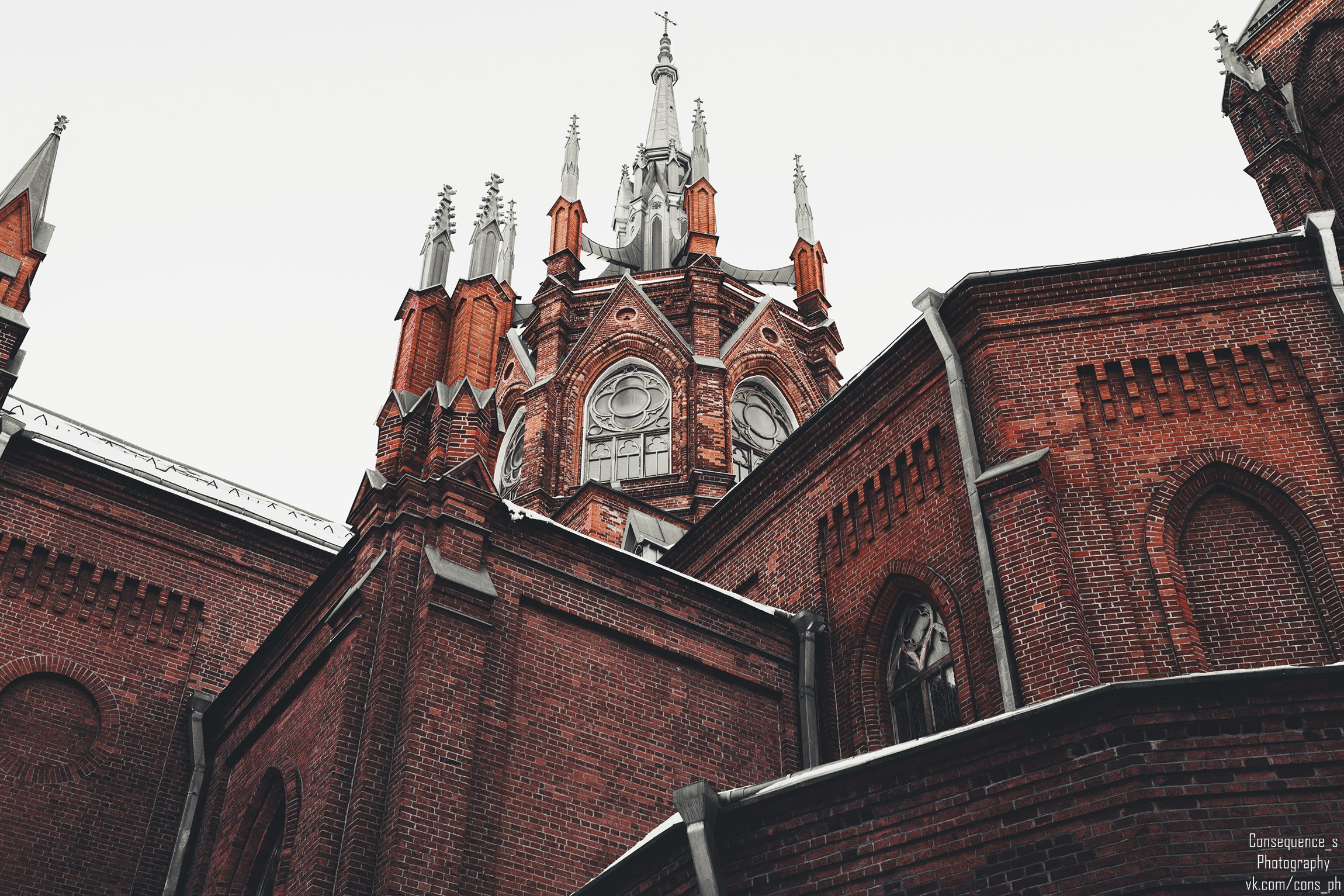 The Cathedral of the Immaculate Conception of the Holy Virgin Mary is a neo-Gothic Roman Catholic Church at Moscow's center, that serves as the cathedral of the Roman Catholic Archdiocese of Moscow. Located in the Central Administrative Okrug, it is one of only two Roman Catholic churches in Moscow and the largest in Russia.